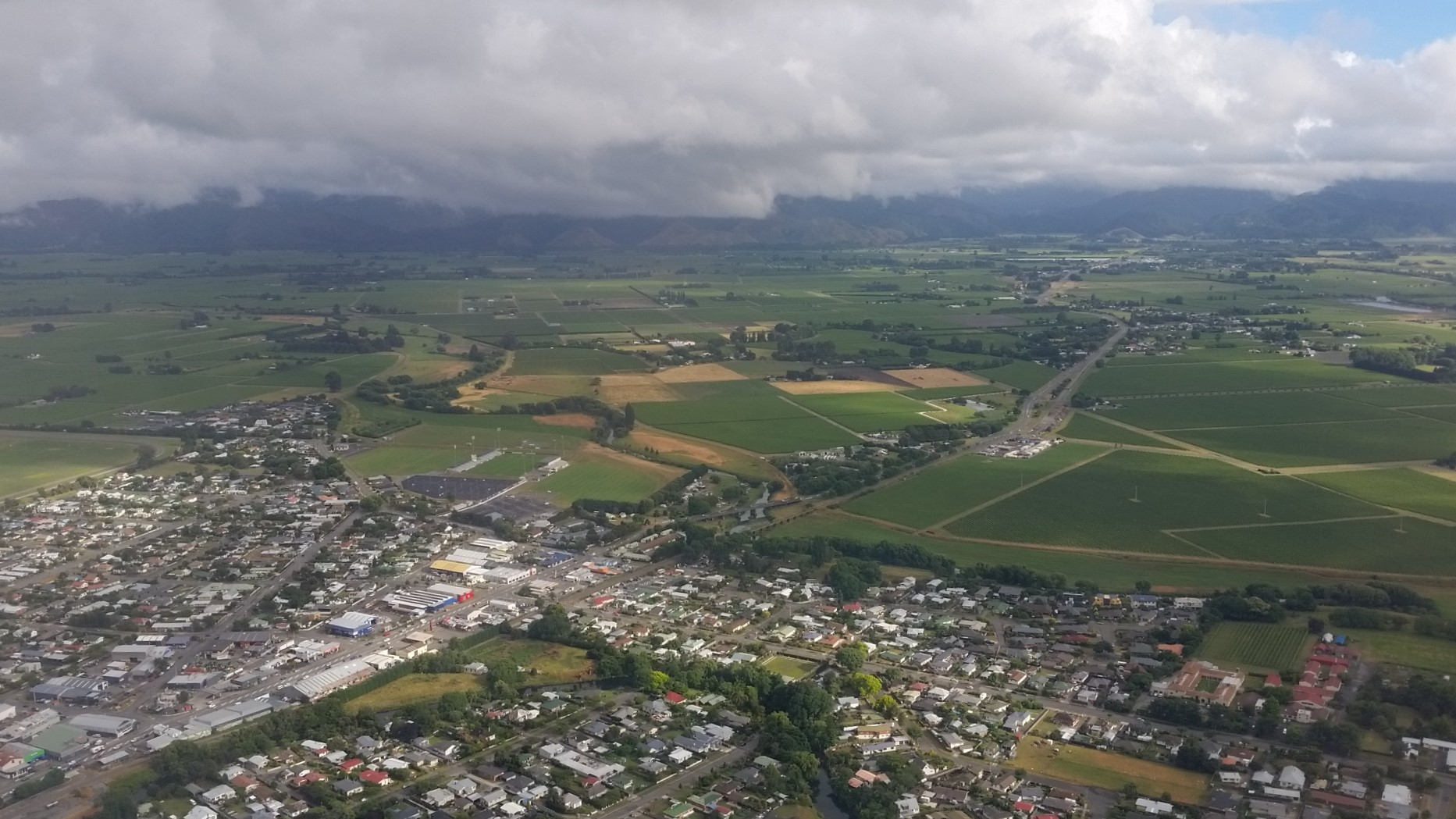 View of a suburb of Blenheim New Zealand from an aeroplane approaching the airport there.